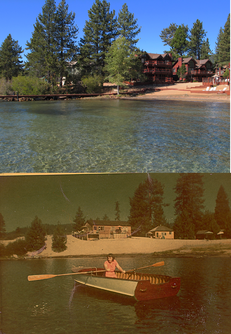 Edgelake Beach Club in Tahoe Vista. The lower photo is probably 1946.